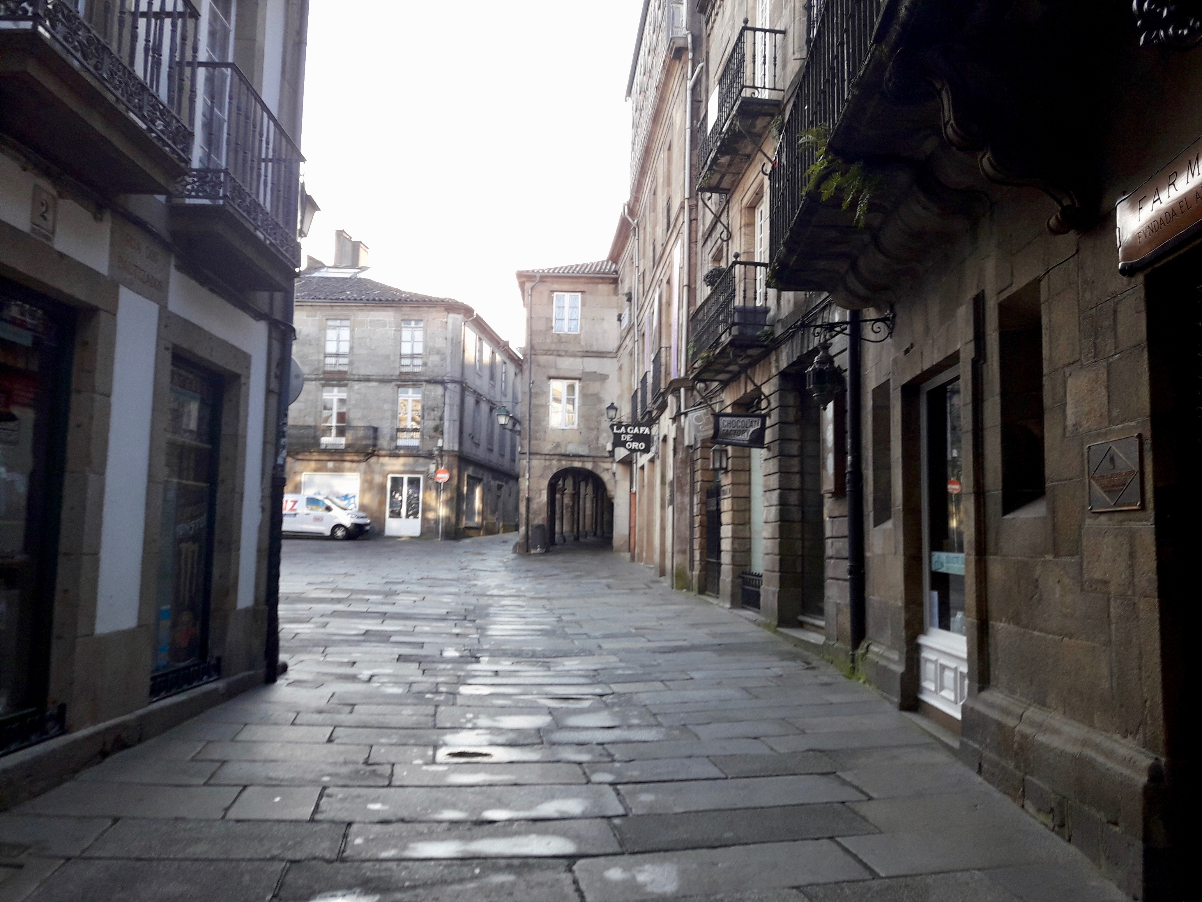 Compostela